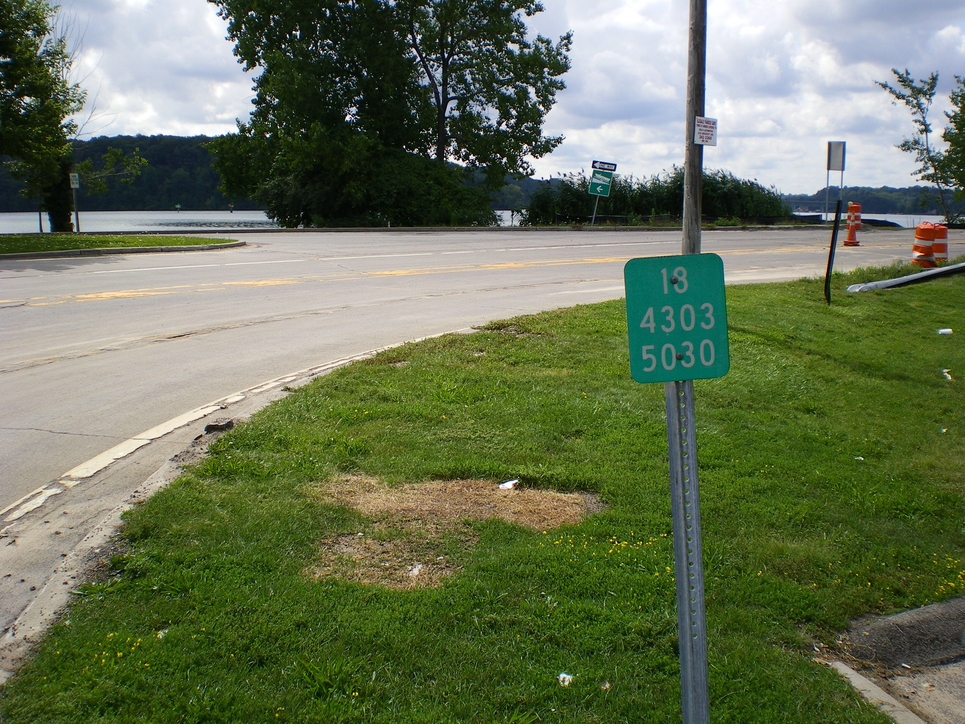 Reference marker for New York State Route 18 on New York State Route 590 southbound at Culver Road. This section of NY 590 was part of NY 18 from the 1950s to the 1970s.